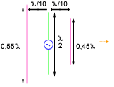 Yagi antenna diagram